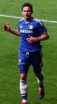 Frank Lampard playing in a UEFA Champions League quarter-final match against Paris Saint-Germain.